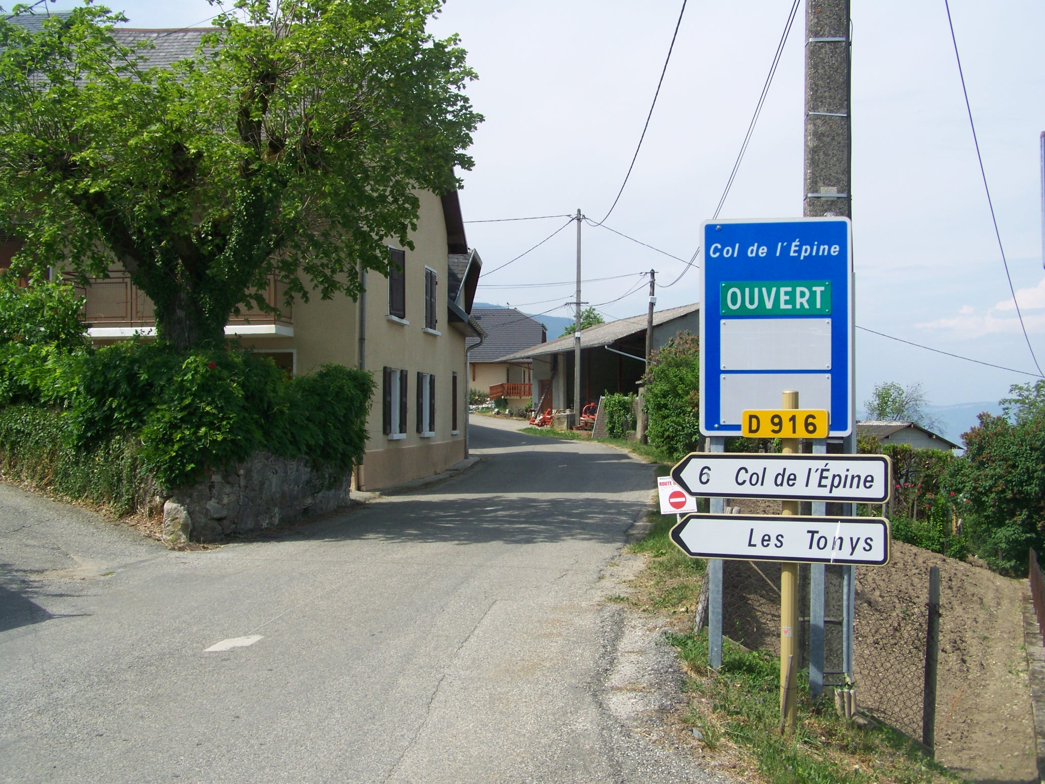 Road sign 6km from the col de l'Épine pass, here in St-Sulpice near Chambéry in Savoie, France.